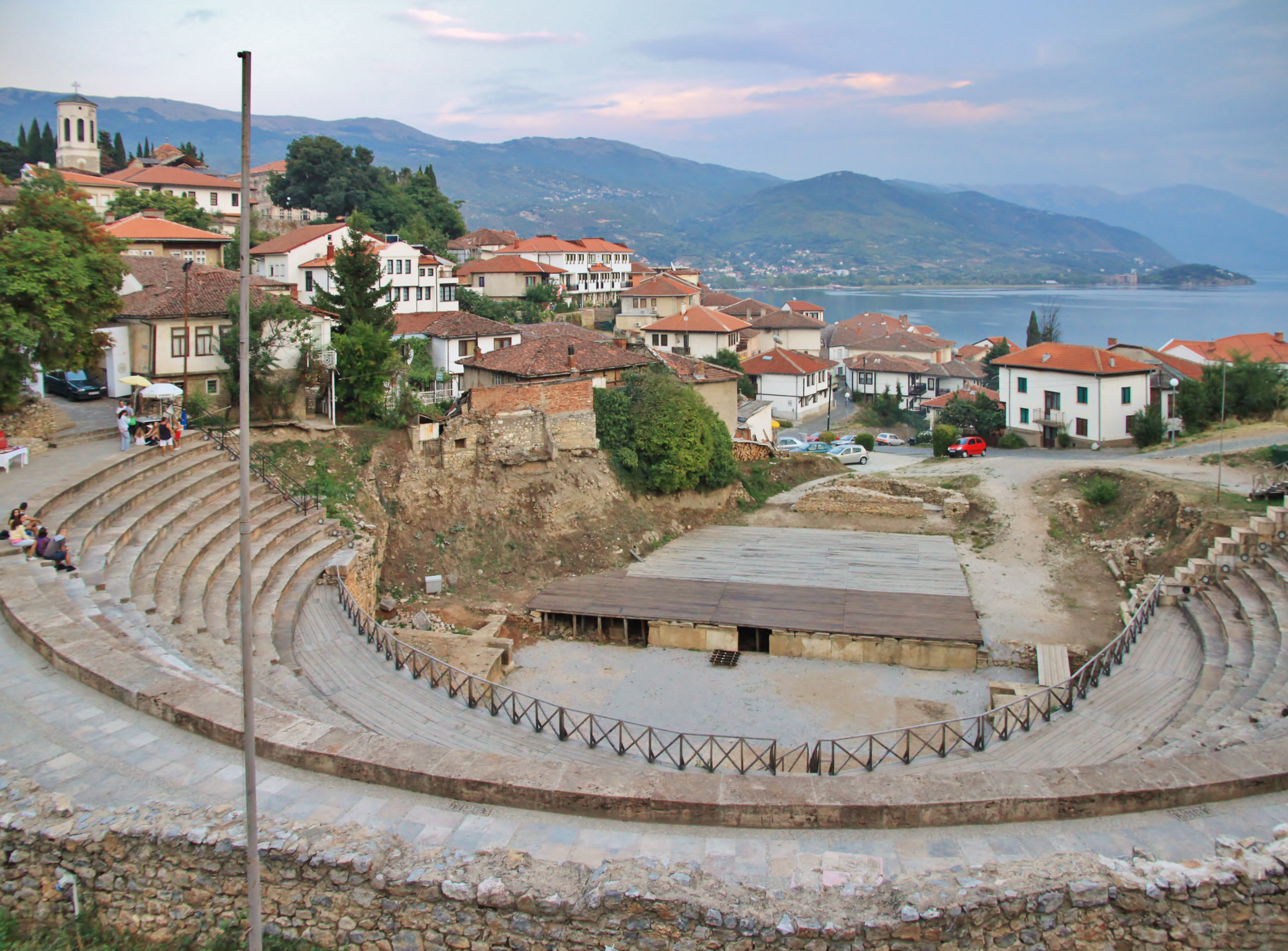 Ancient Theatre. Ohrid, Macedonia.